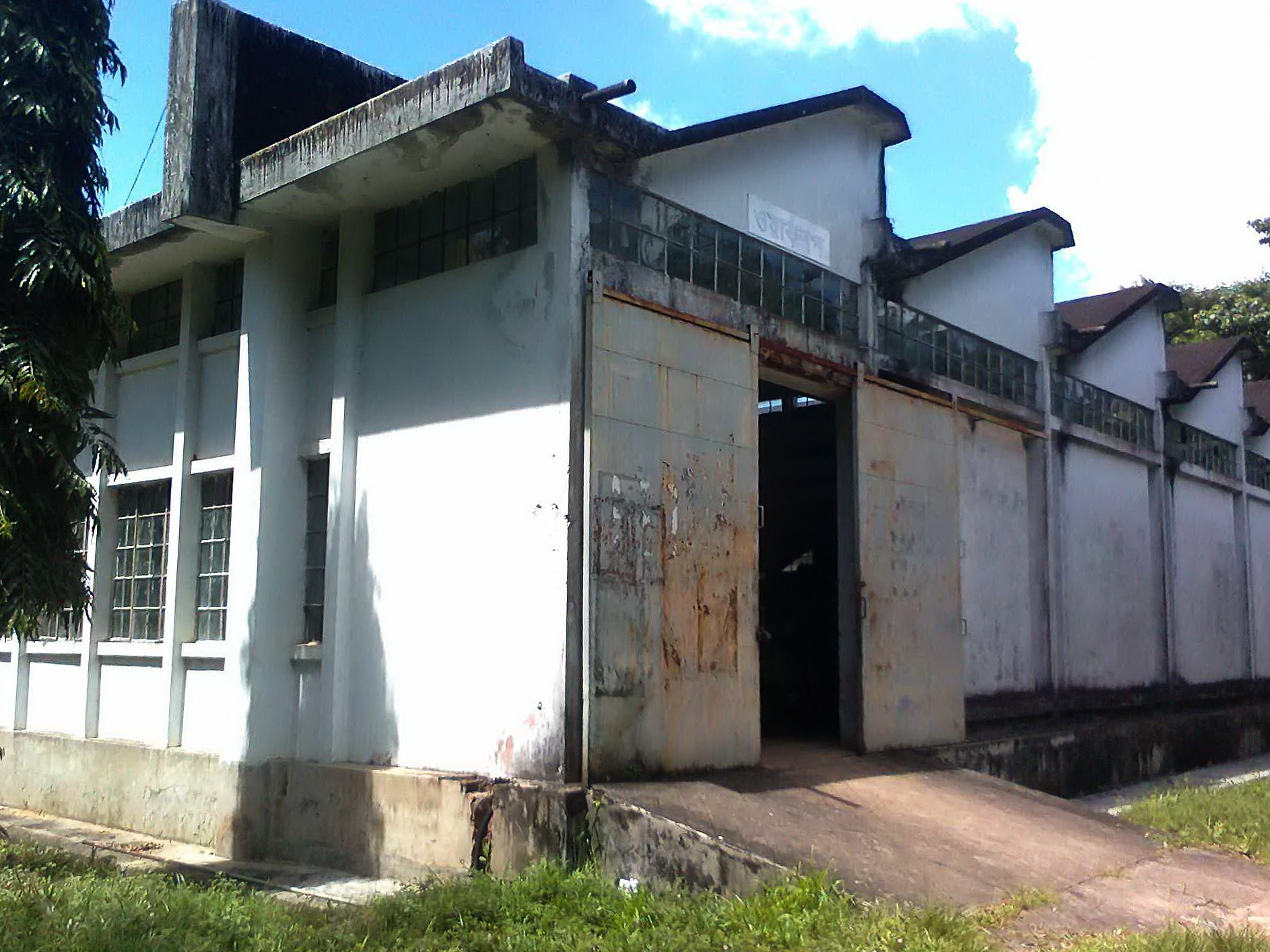 CUET Workshop.Which inclueds Woodshop,Machine Shop, Electrical Shop etc.